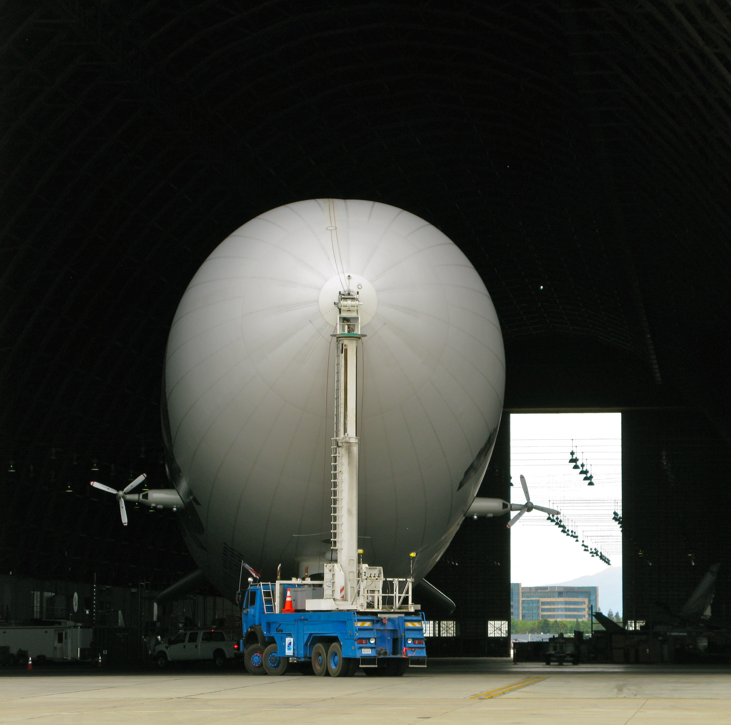 Zeppelin NT backs into Hangar Two